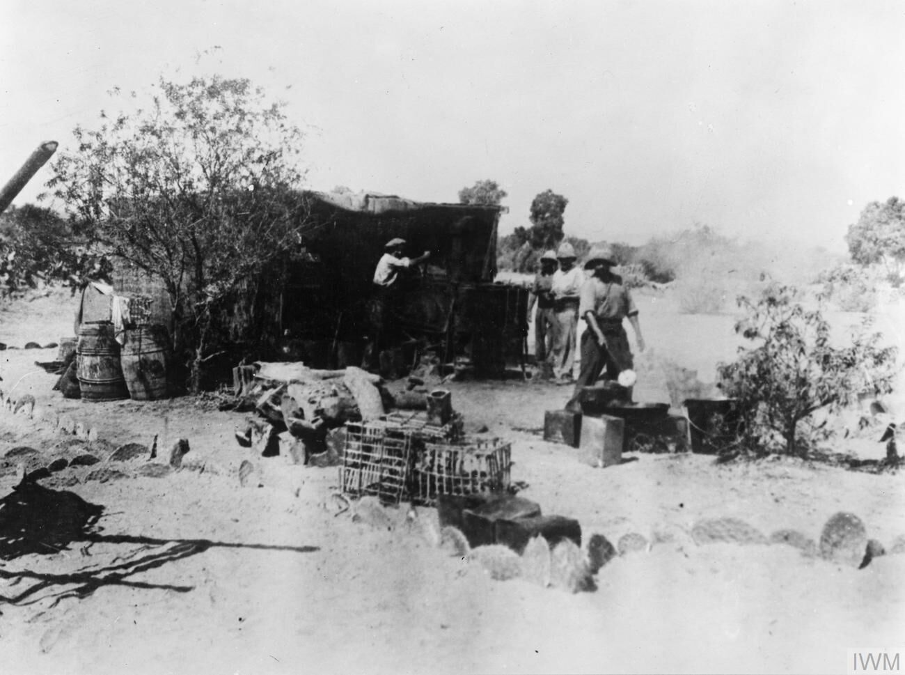 A field kitchen of the Detachment Francais de Palestine et Syrie. Khan Yunis, Palestine.